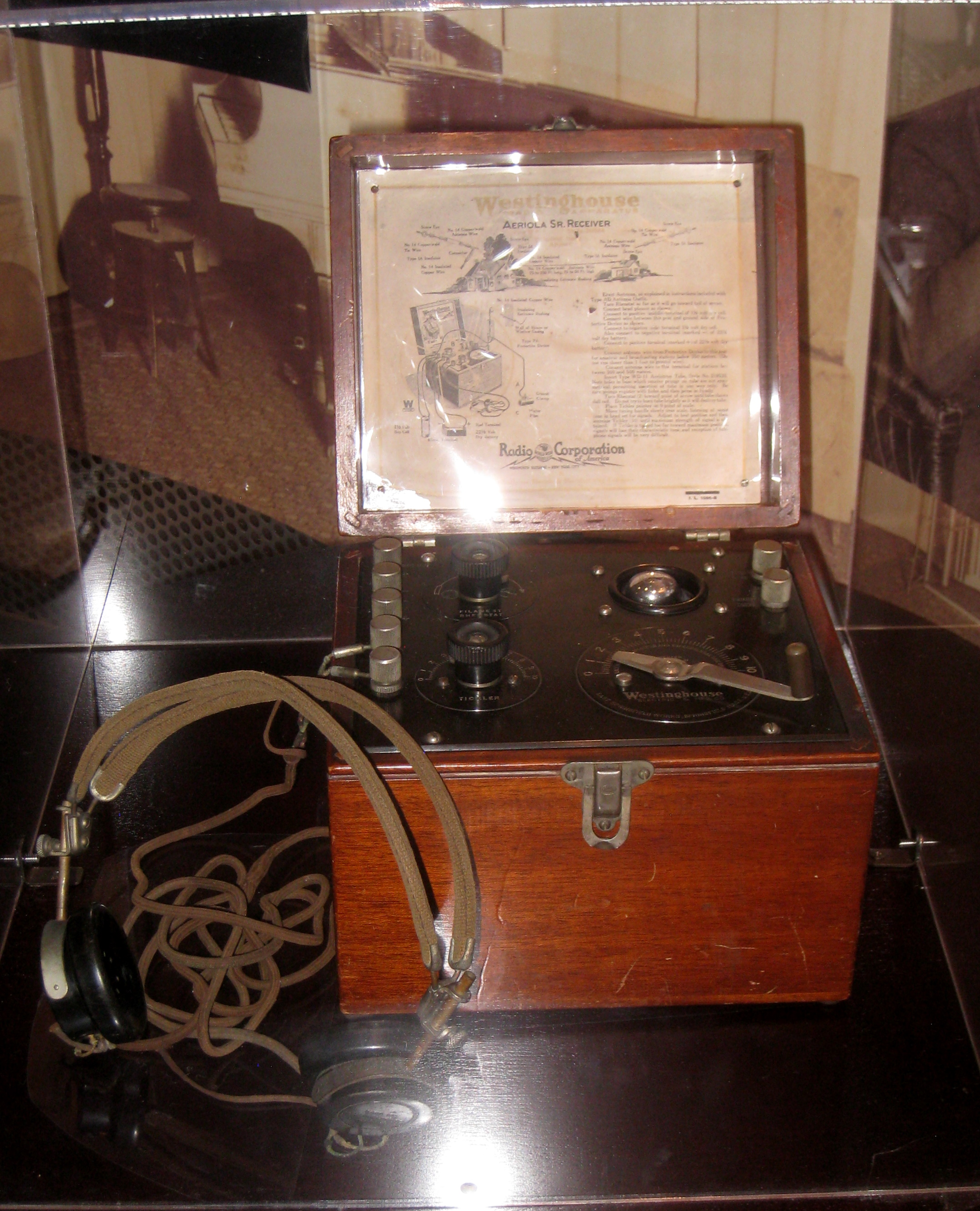 Exhibit in the Senator John Heinz History Center, 1212 Smallman Street, Pittsburgh, Pennsylvania, USA. There were no restrictions on photography in the museum collections.